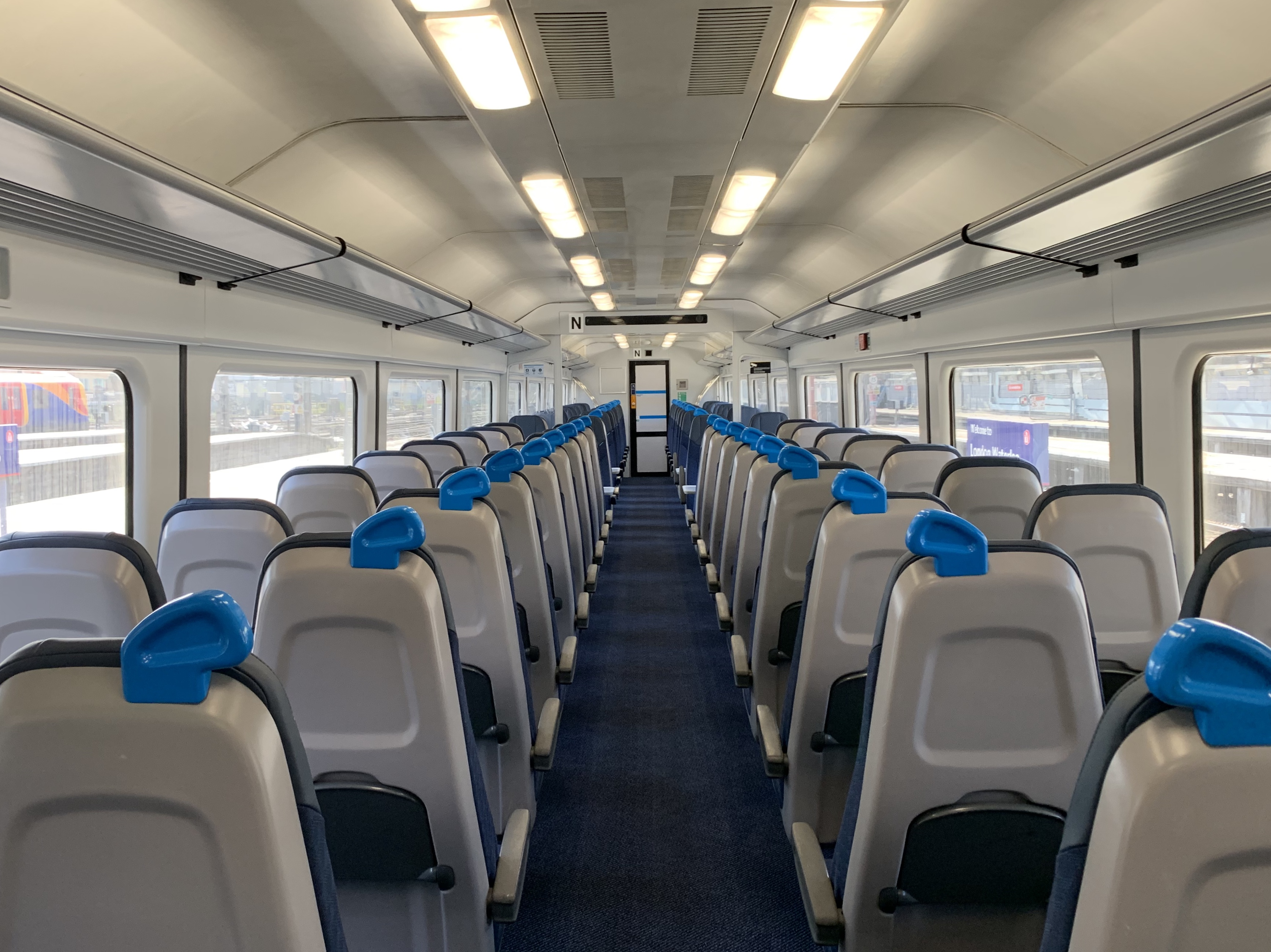 Refurbished Standard Class interior of SWR’s 442417